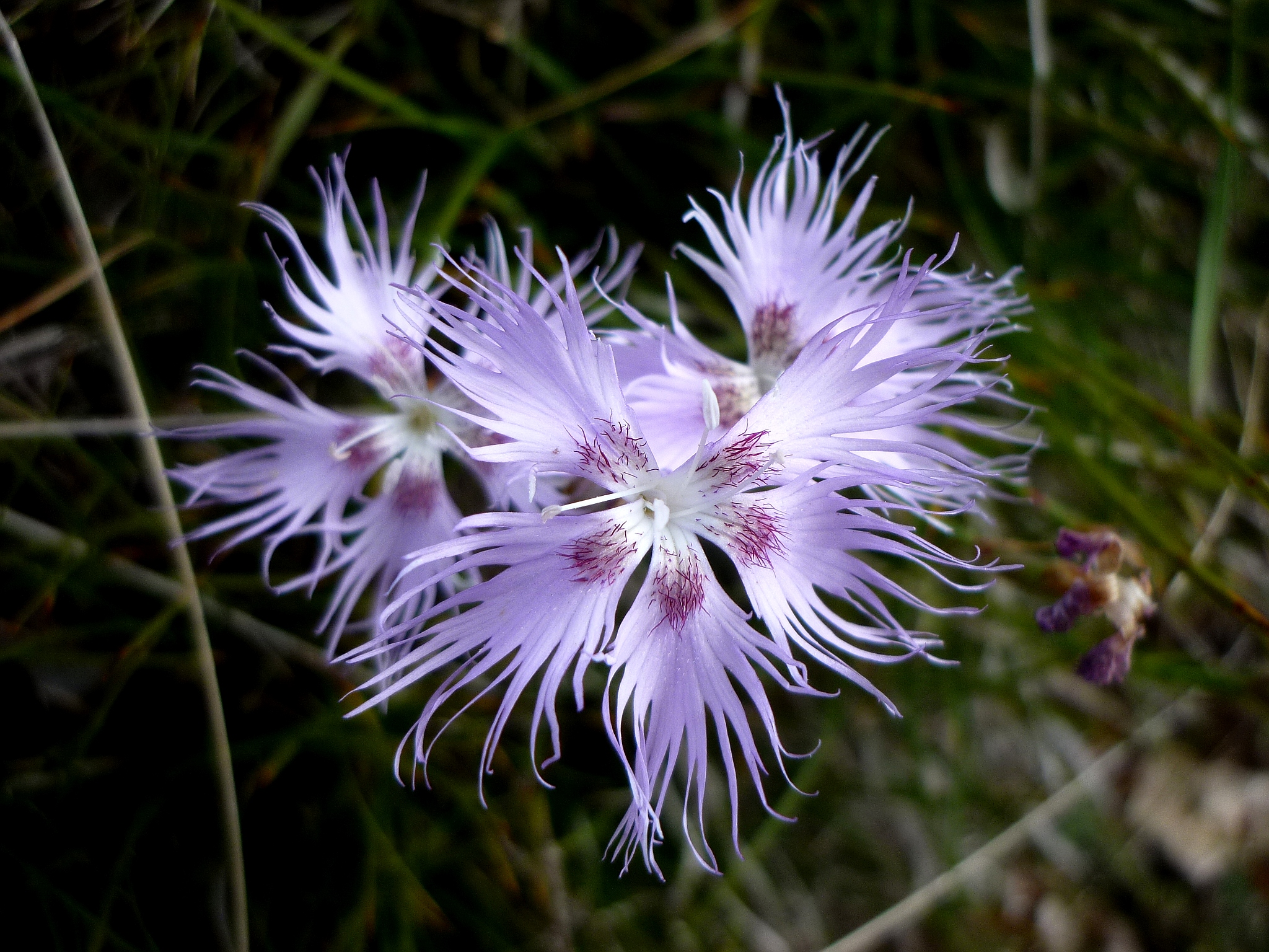 Dianthus hyssopifolius. In la Bòfia, la Coma i la Pedra (Solsonès - Catalunya). To 1.830 m. altitude